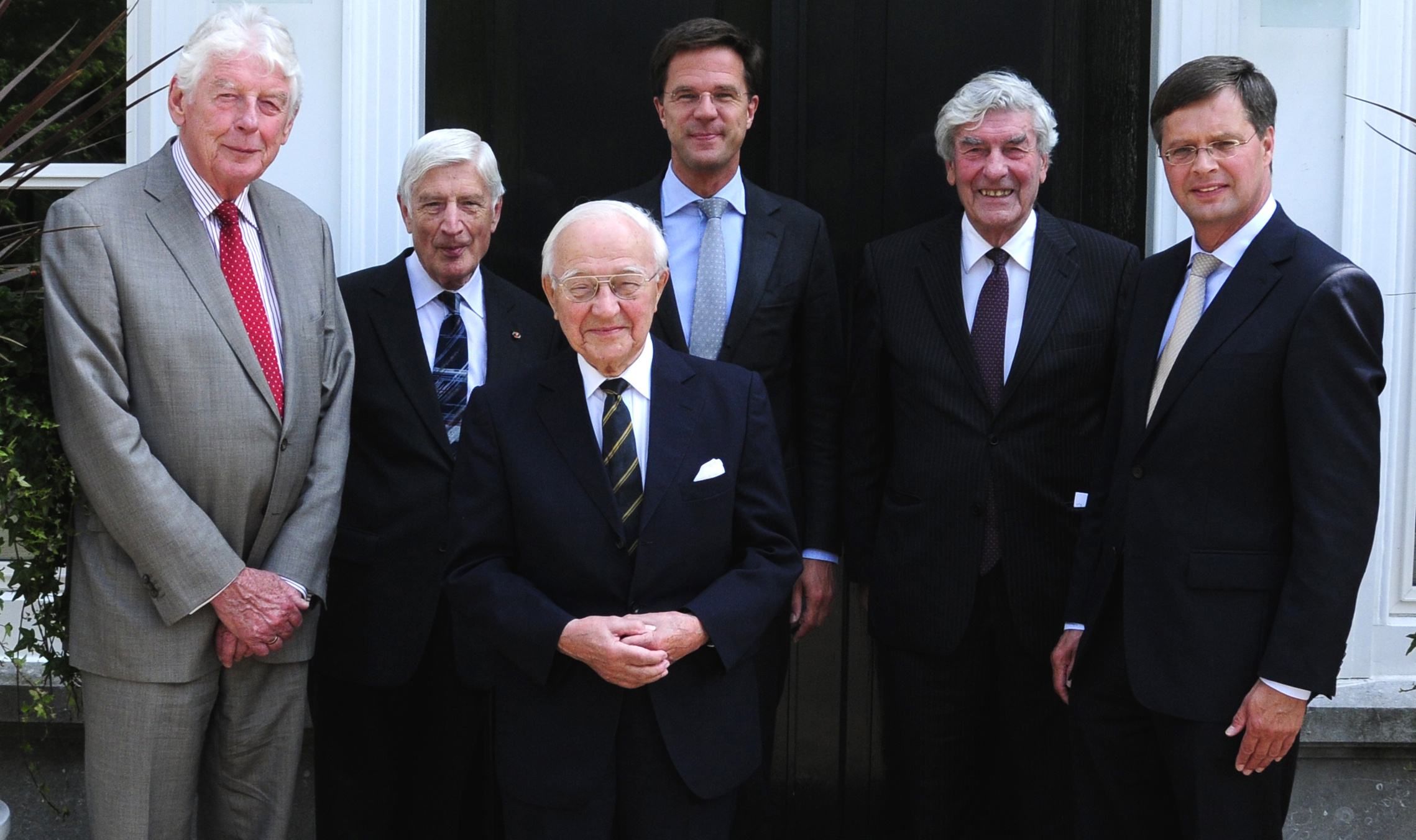 Former Prime Ministers Kok, Van Agt, De Jong, Lubbers and Balkenende with Prime Minister Rutte of the Netherlands.